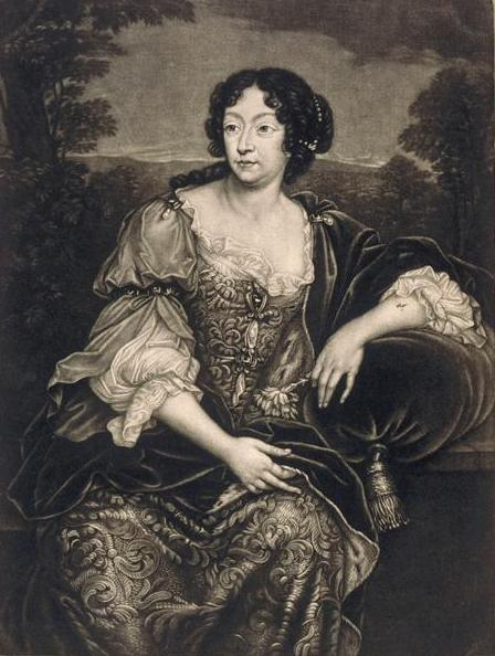 Élisabeth (Isabelle) d'Orléans, Duchess of Guise by Jan van der Bruggen